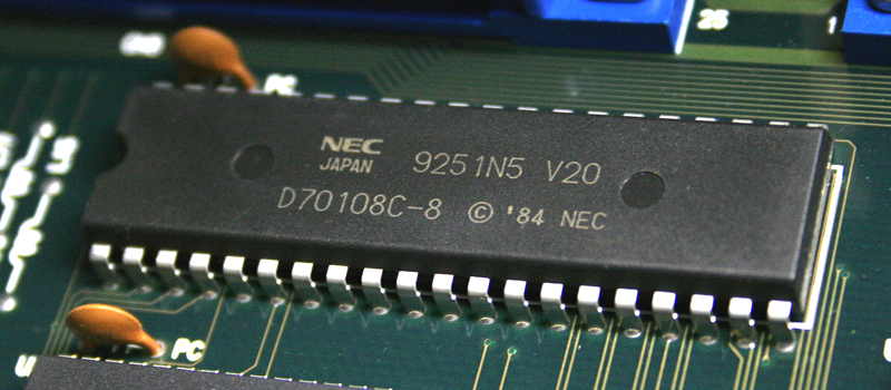 uPD70108C-8(V20) CPU made by NEC.